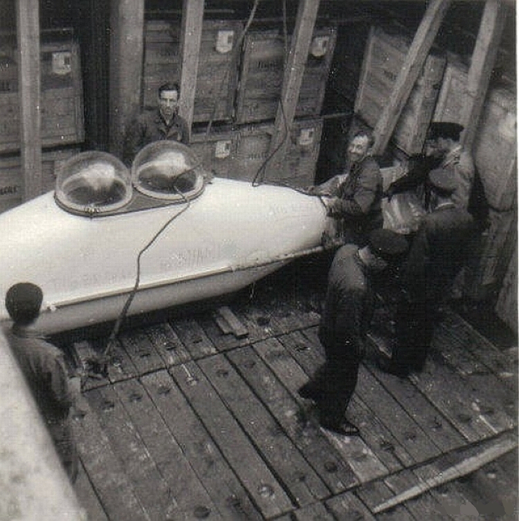 special cargo, mini submarine to Nassau, Bahamas - tween deck, hatch 3 - Loading at the port of Antwerp (1964)